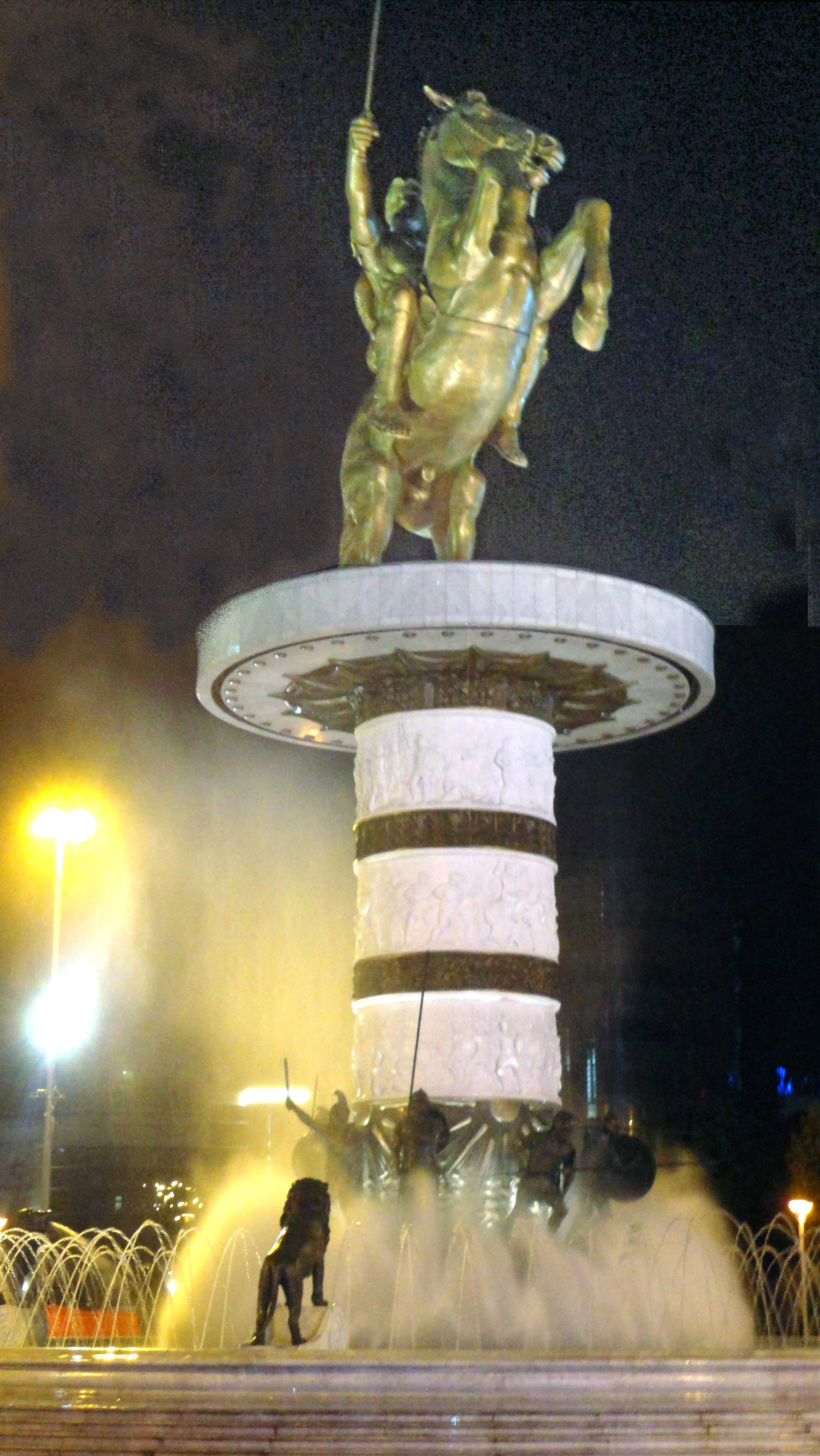 Warrior on a horse